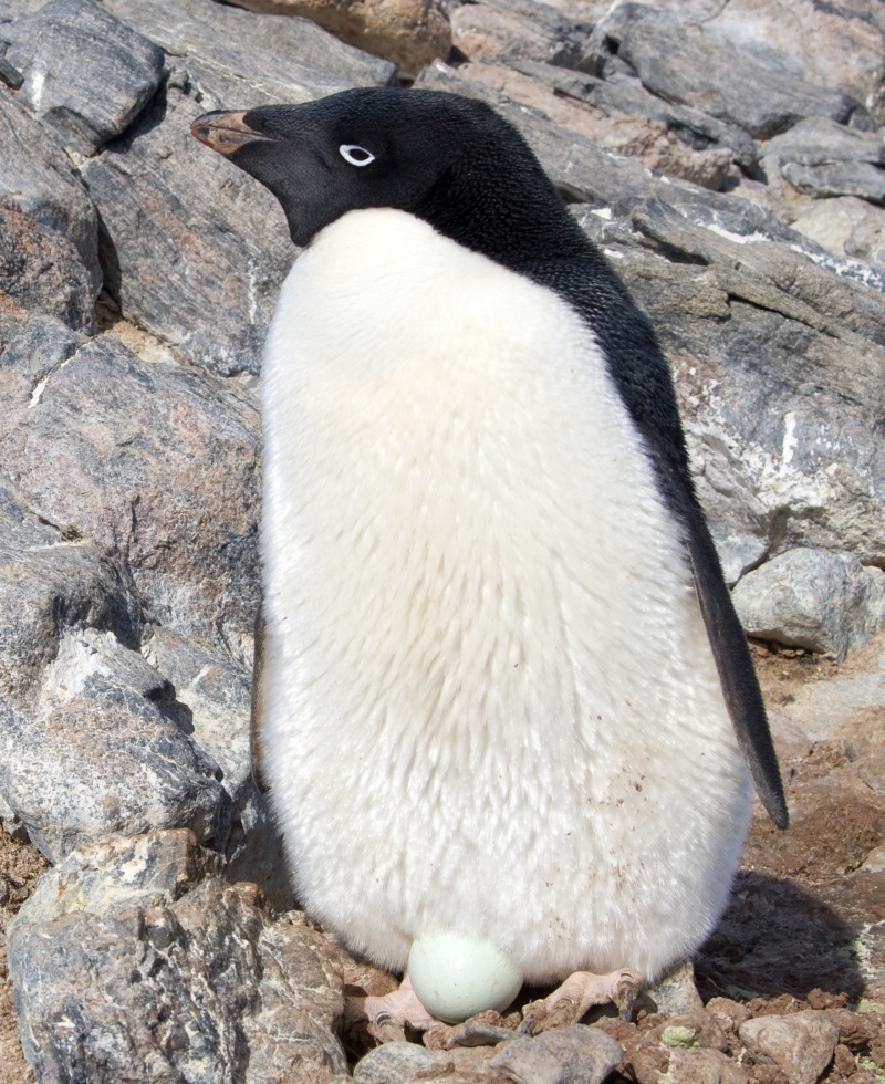 Adelie Penguin